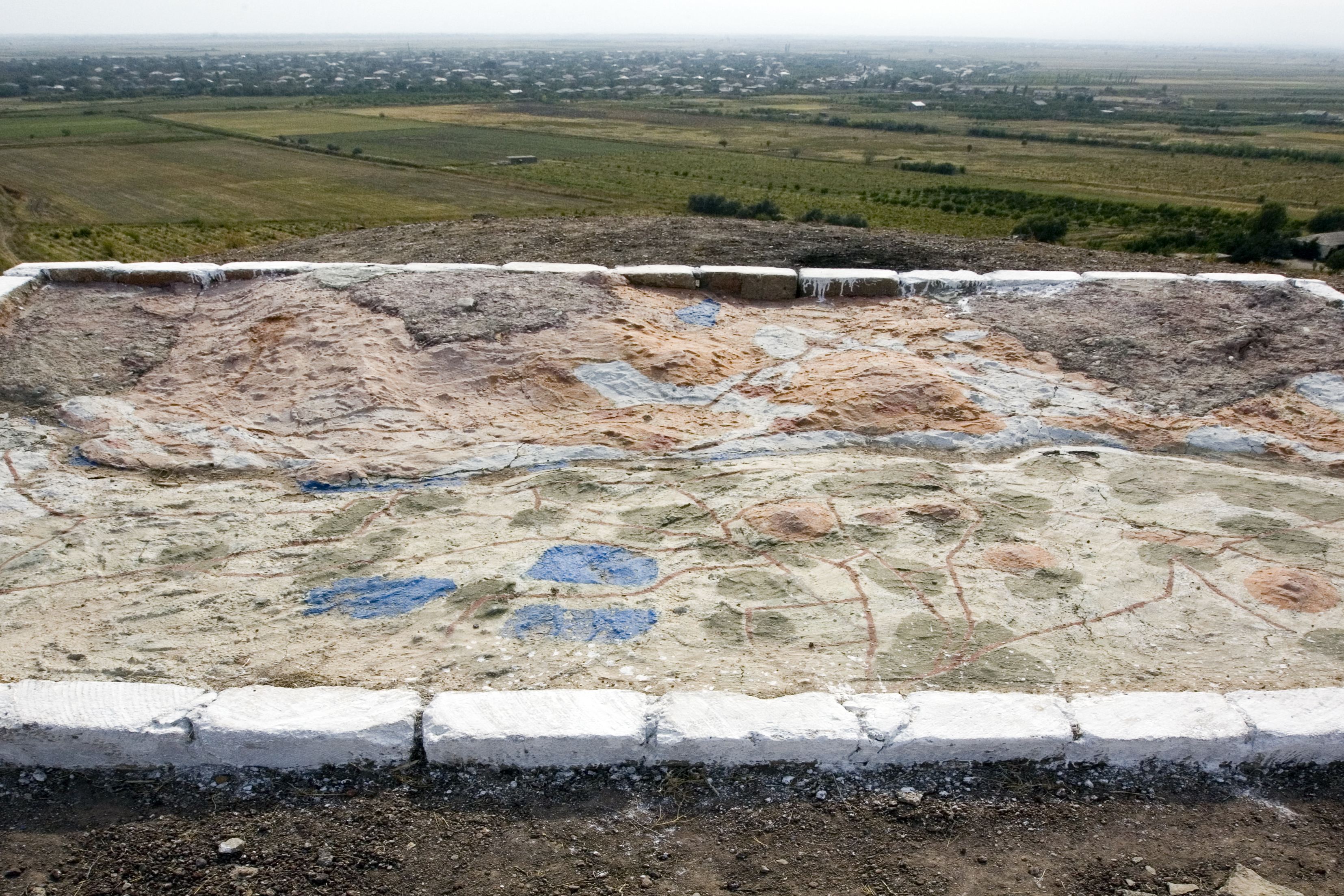 Plan of Argishtihinili